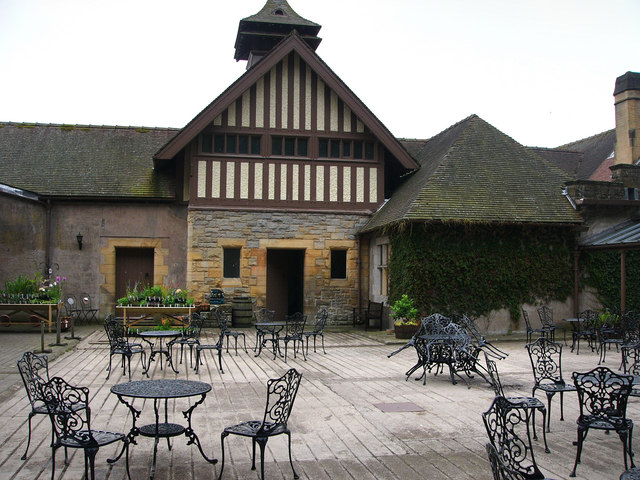 Courtyard of the visitor centre Cragside